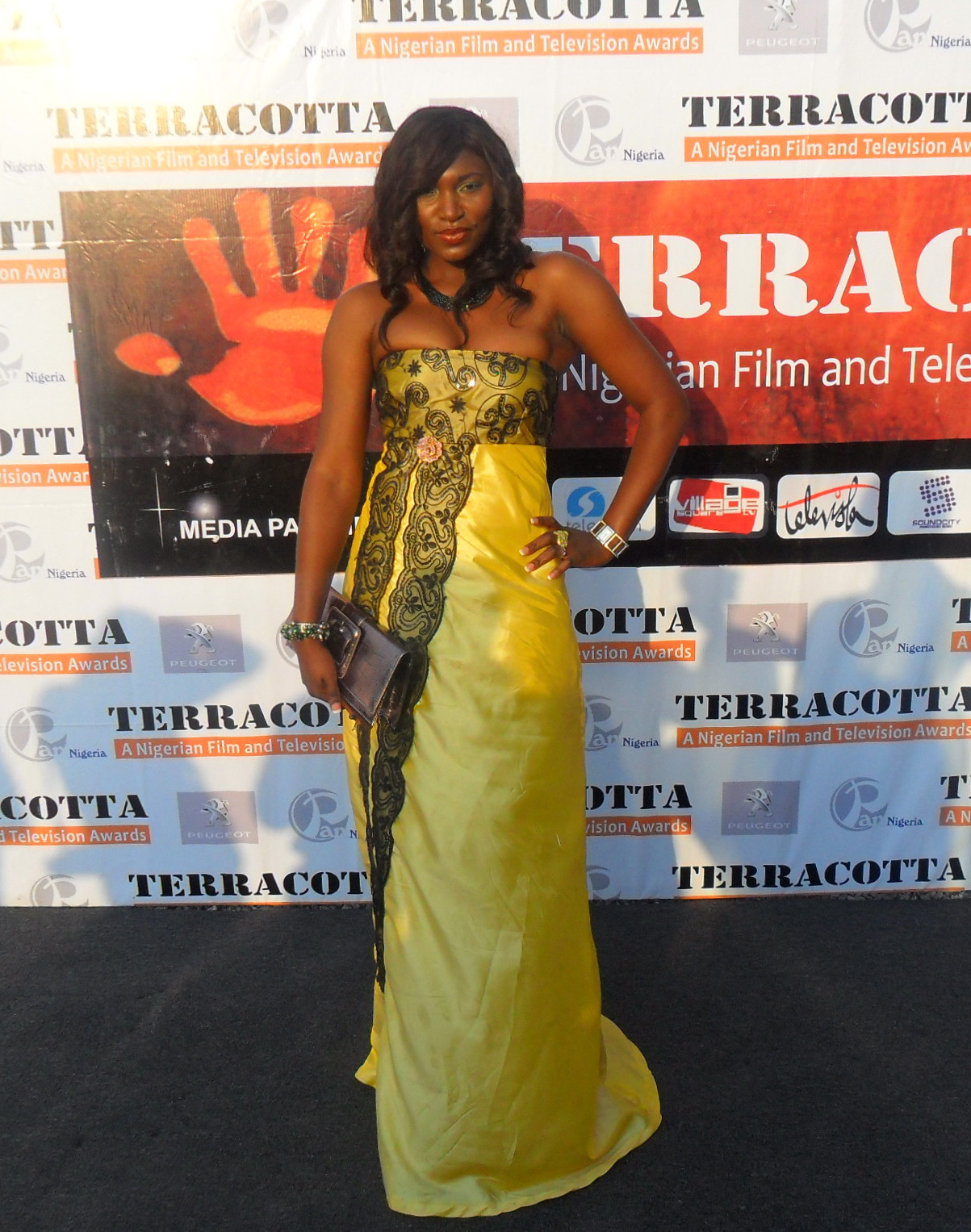 Ufuoma Ejenobor on the grey carpet at Terracotta Tv and film Awards